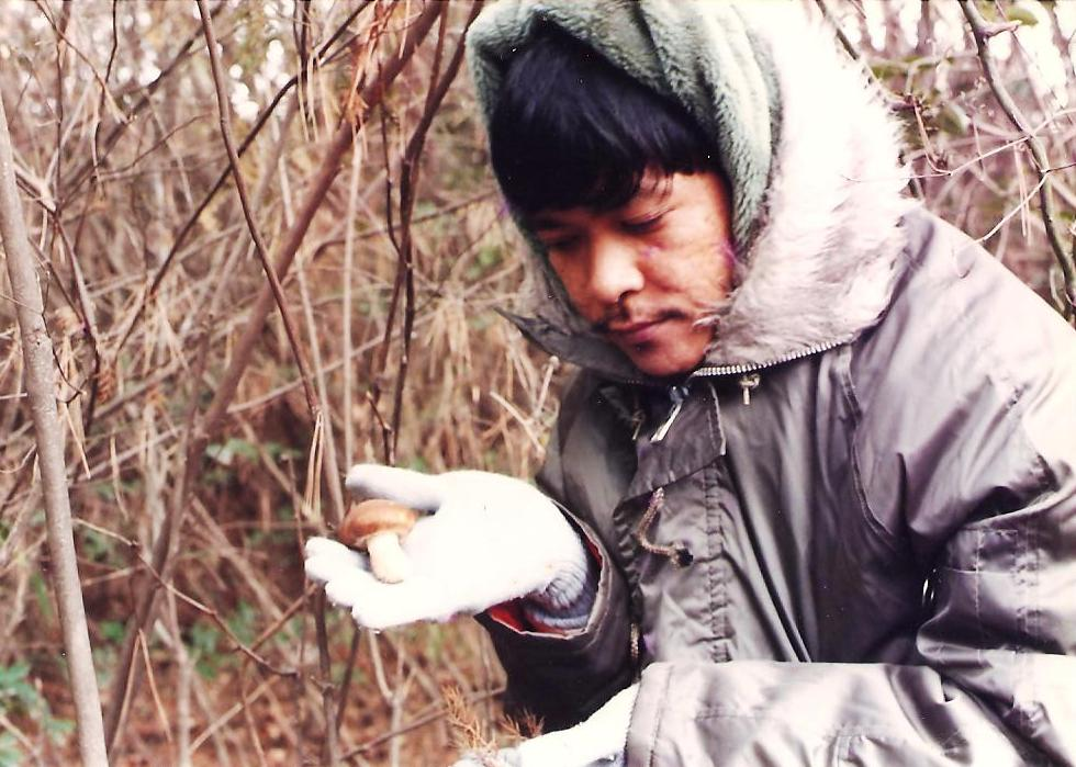 Author - Jose A. Fadul I asked a Japanese companion to take this picture of myself in one Saturday of October, 1992 in Hiroshima red pine forest, where we did some mushroom hunting. A film camera was used; I had the picture scanned and cropped.